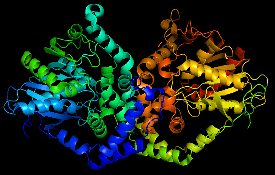 The structure of microsomal epoxide hydrolase from Aspergillus niger